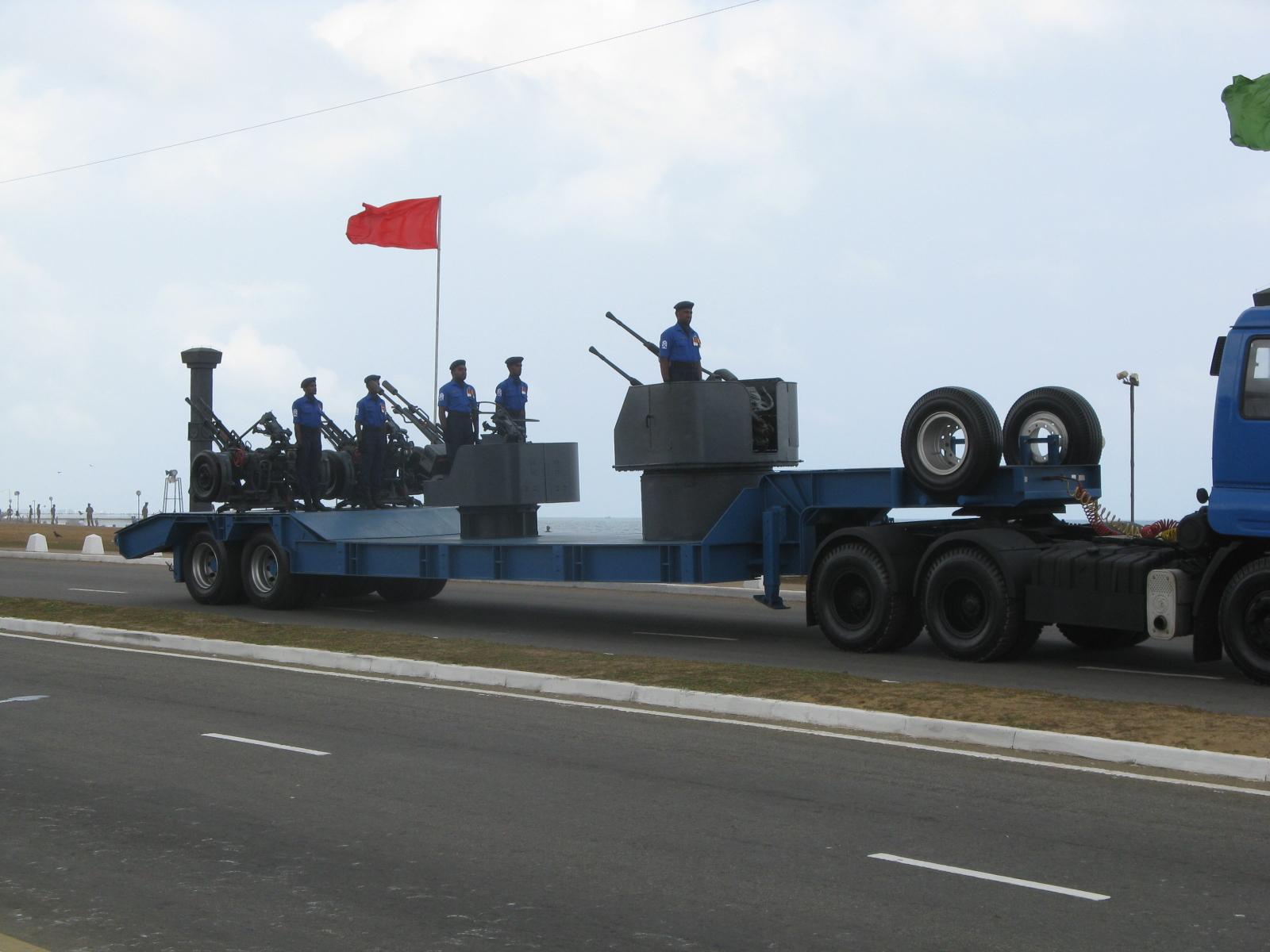 Anti-aircraft Units - Sri Lanka Army